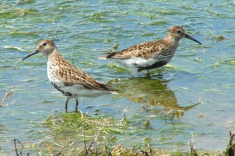 Dunlin, Bécasseau variable (Calidris alpina). Photo by sannse, Walton-on-the-Naze, Essex, 19 June 2004